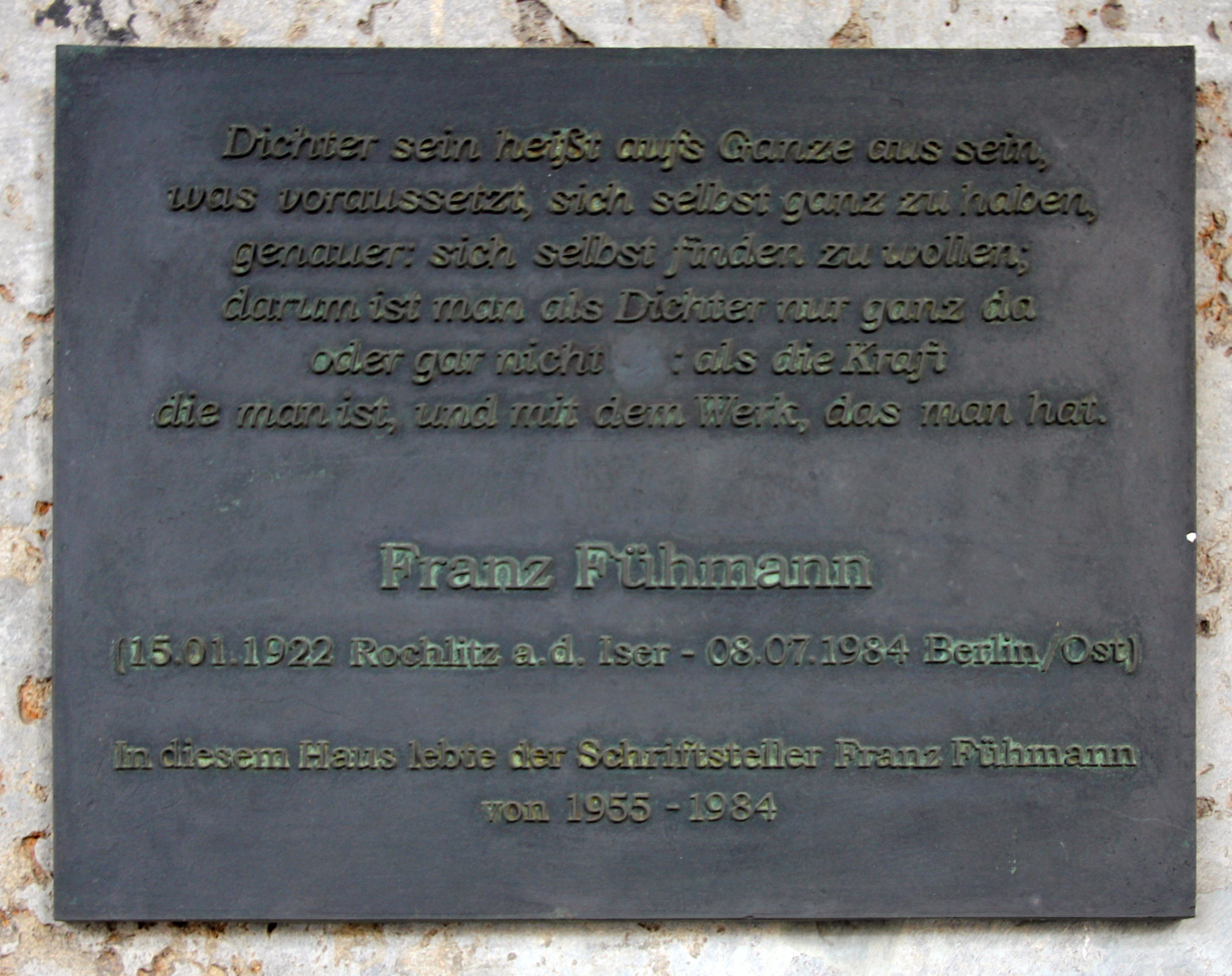 Memorial plaque, Franz Fühmann, Strausberger Platz 1, Berlin-Friedrichshain, Deutschland